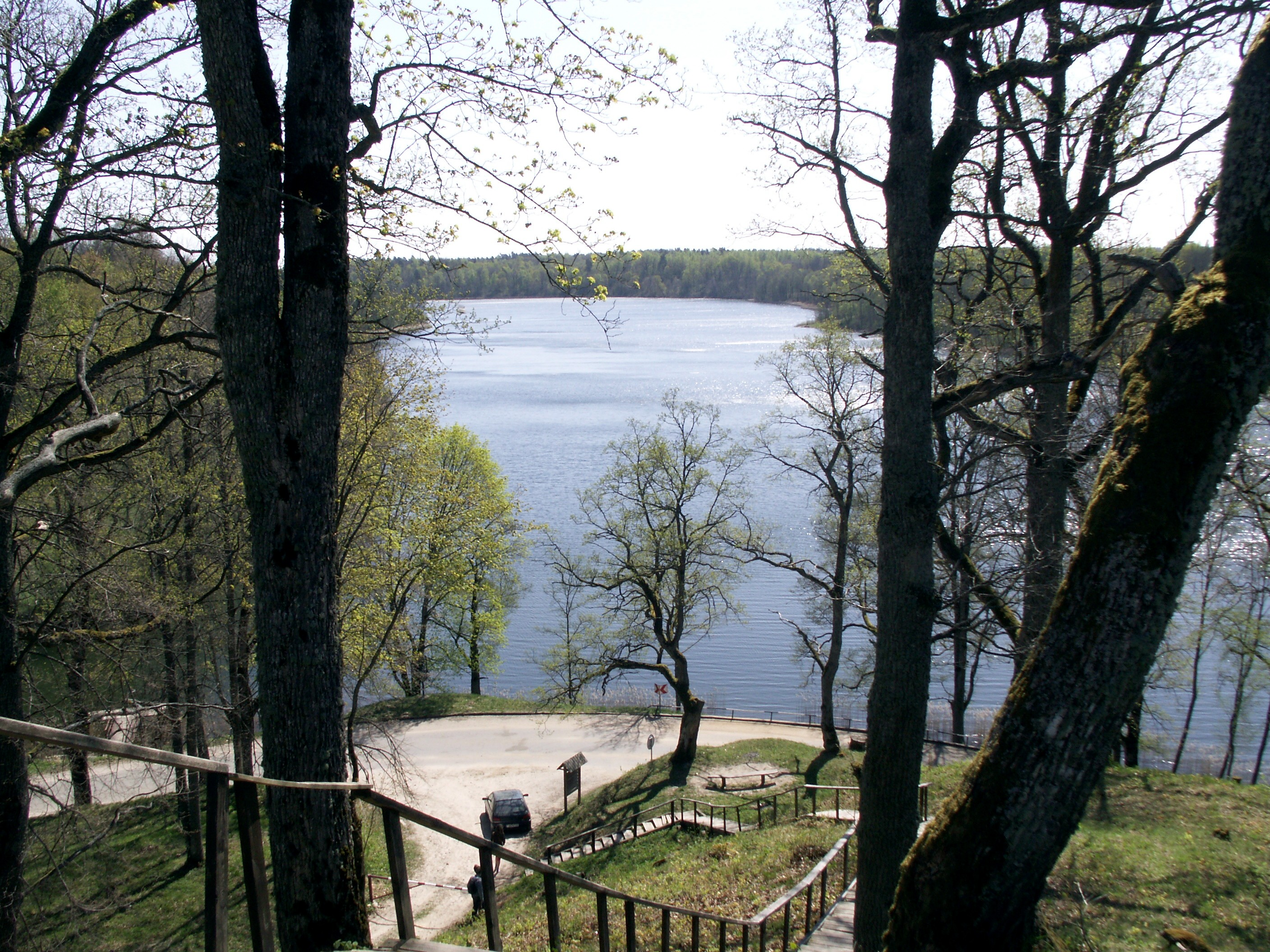 Asveja lake, Dubingiai, Lithuania